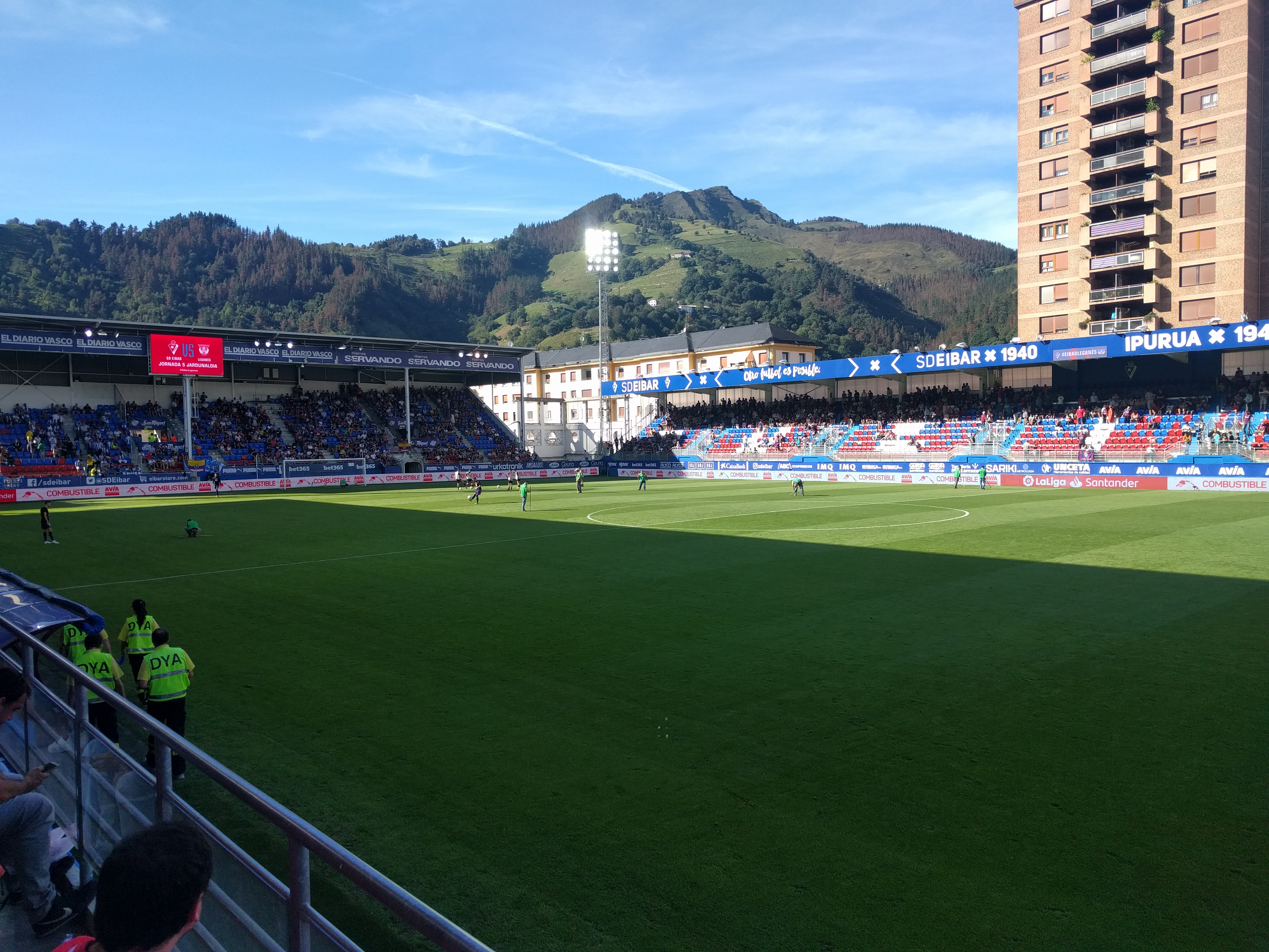 Match of Primera División, LaLiga 2018-19, SD Éibar 1:0 CD Leganés, Ipurúa